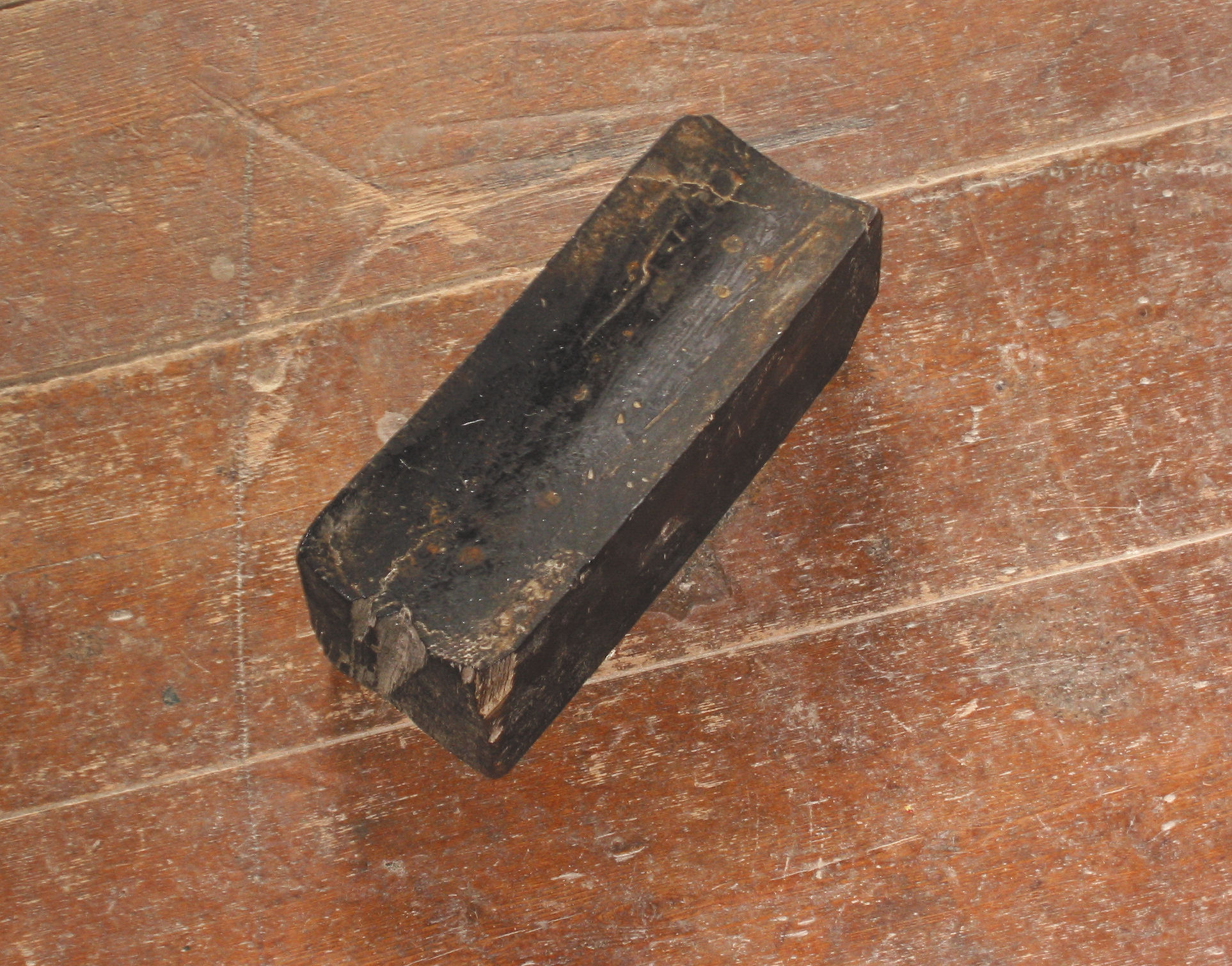 Lignum vitae bearing of a windmill (Pokhouten lager windmolen)